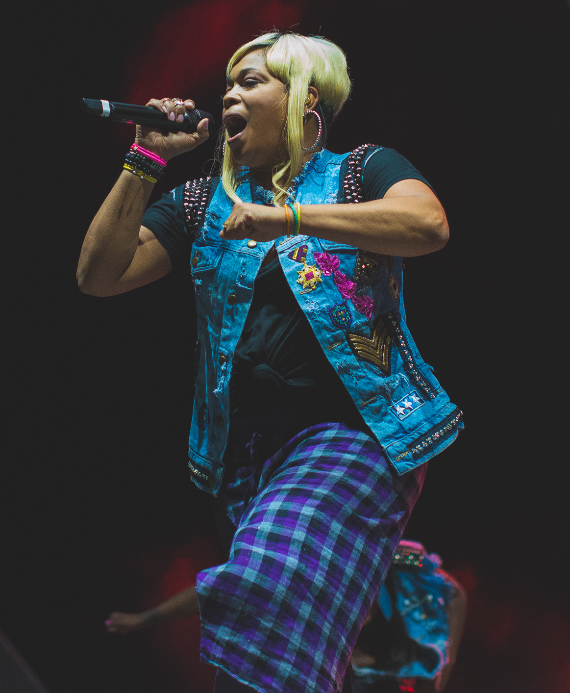 93-5 The Move presents Throwback Bash with TLC, Naughty by Nature and Kardinal Offishall at TD Echo Beach in Toronto on Saturday, September 24th 2016